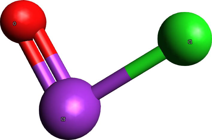 Californium oxychloride structure